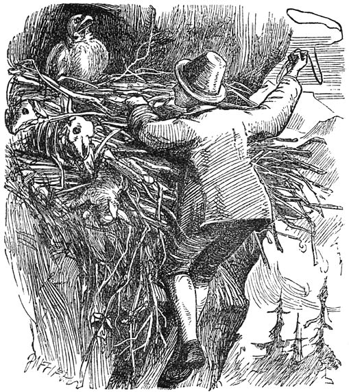 From 'Andersens Sproken en vertellingen' by Hans Christian Andersen, Titia van der Tuuk (ed.) and Simon Jacob Andriessen (trans.). Gebroeders E. & M. Cohen, Nijmegen - Arnhem. Illustrated by Alfred Walter Bayes (1832-1909) and engraved by the Dalziel Brothers (Edward Daziel, 1817-1905; George Daziel, 1815-1902).